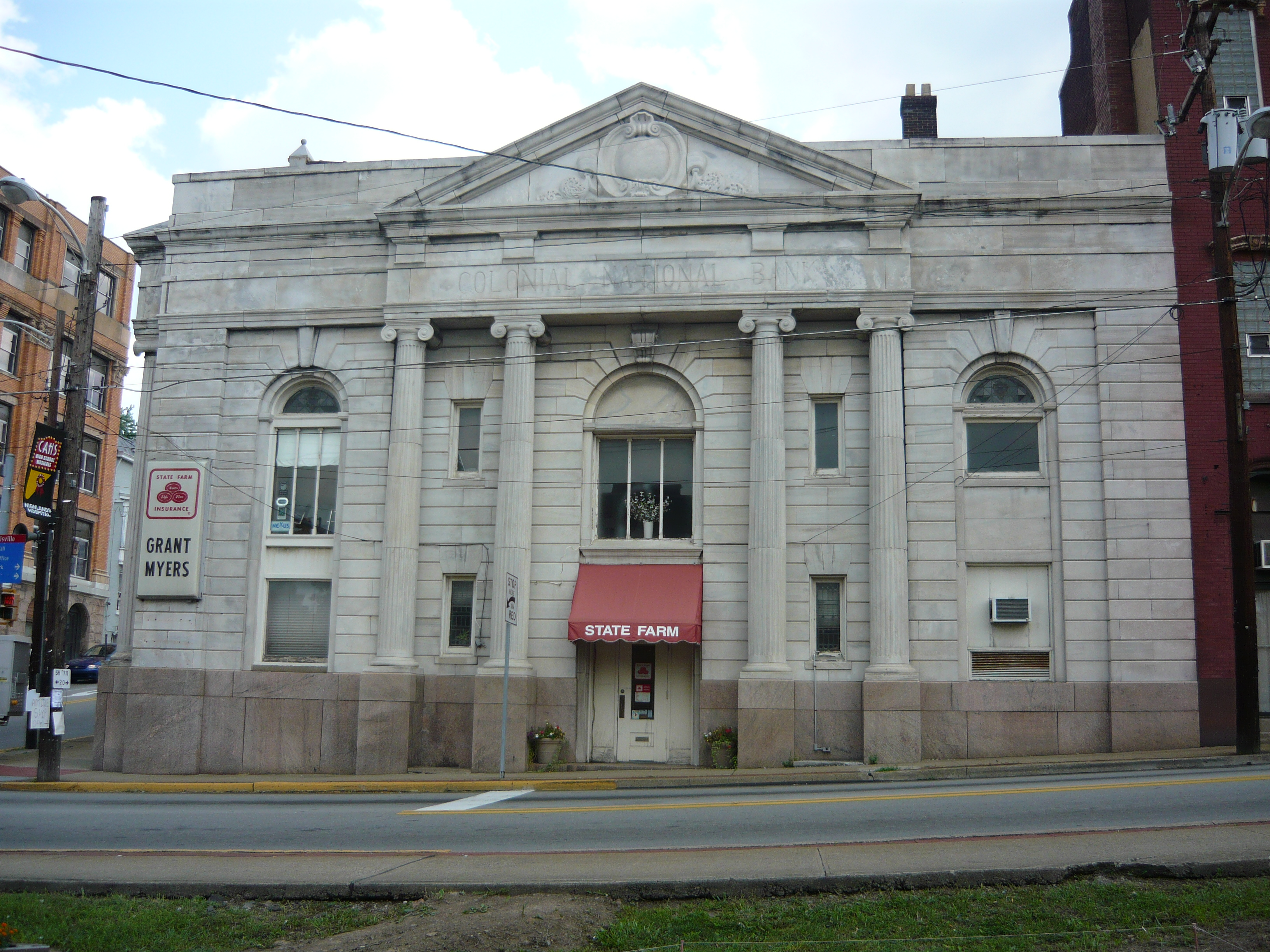 Colonial National Bank Building, corner of Crawford Avenue and Pittsburgh Street, Connellsville, Pennsylvania. Built 1906.